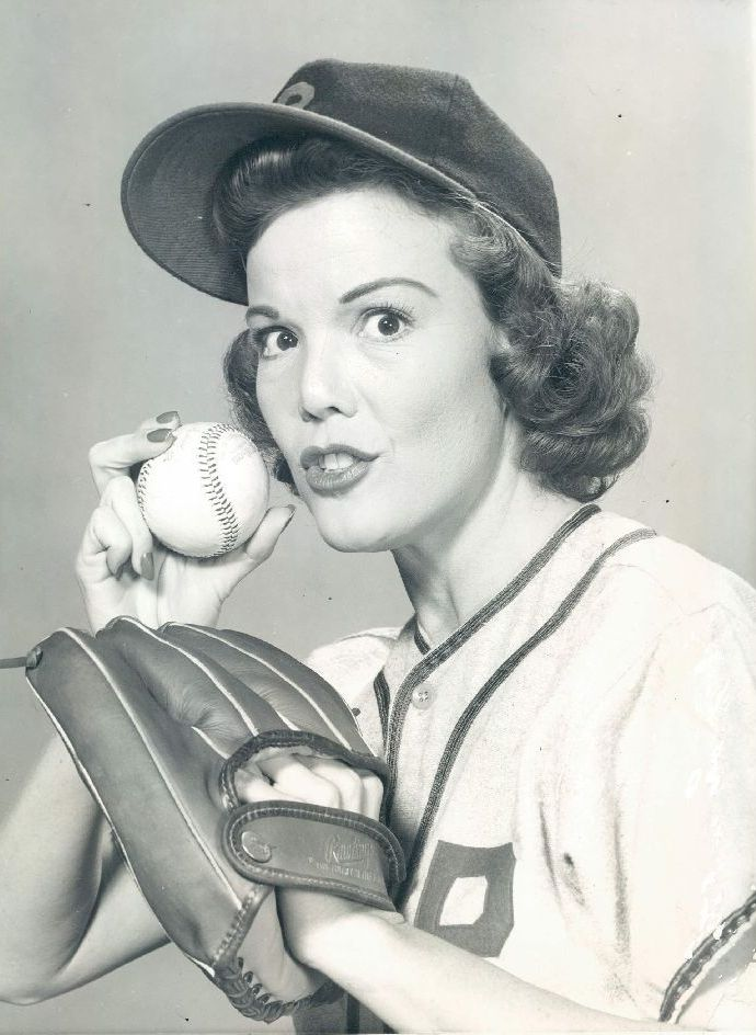 Nanette Fabray in The Kaiser Aluminum Hour (1957)